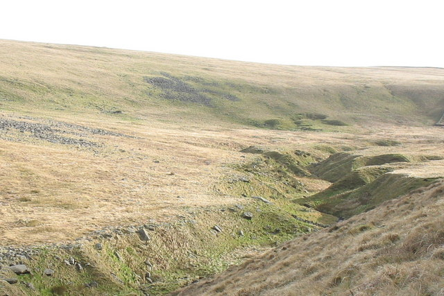 View up the incised valley of Afon Hen towards the abandoned manganese mine